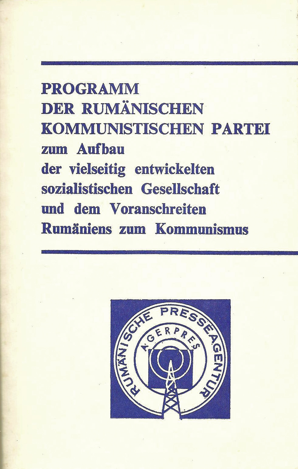 Programme of the Romanian Communist Party (from 18th of December 1974)